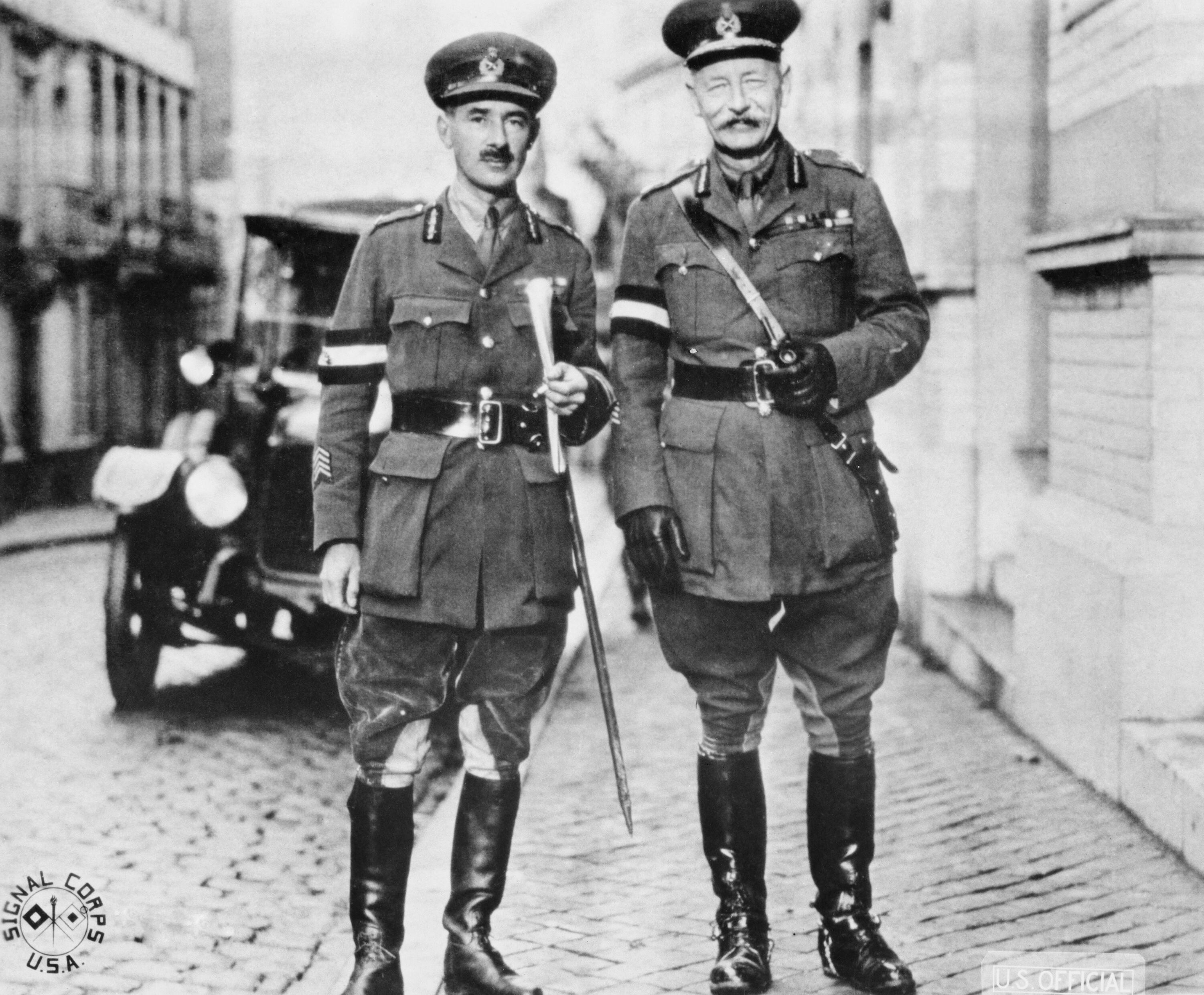 Lieutenant General Haking with Brigadier General Green, entering Hotel Brittanique, Spa, Belgium, 1918.THESE ARE BRITISH GENERALS IN BRITISH UNIFORMS. Sir Richard Cyril Byrne Haking (right) and on the left Arthur Frank Umfreville Green